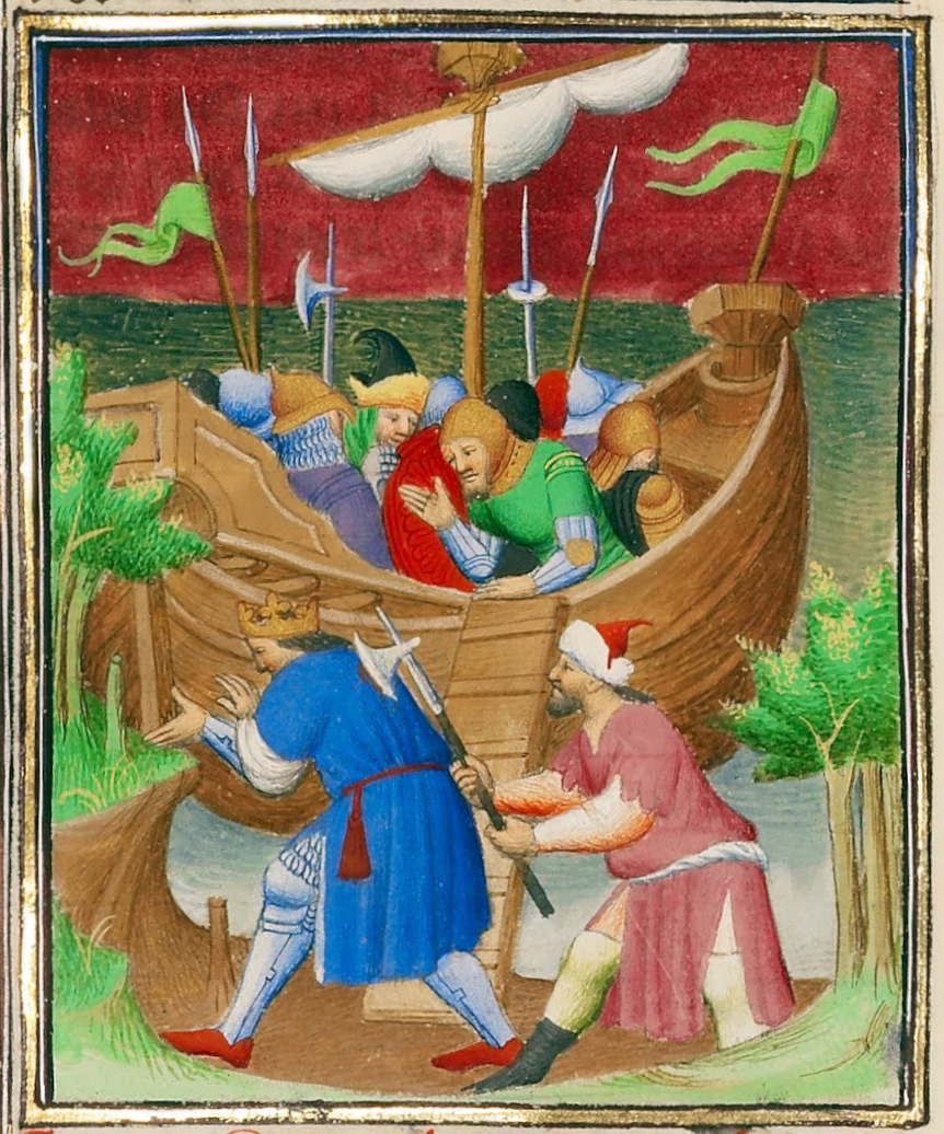 "The blood-red sky and green ocean form a menacing background against which the devious action of this miniature unfolds: a guard drives his battle-ax into Demetrius Nicator's back as he attempts to land in Tyre. Demetrius, king of Syria, was unpopular among his troops and subjects. His pride was his downfall, and he was deposed and imprisoned several times. Defeated and deserted by his wife and children, the king left Syria, taking a boat to Tyre. He planned to devote himself to the service of the god Hercules, who had a temple there. He arrived safely at the port, but the prefect of Tyre had him killed as he left his ship."